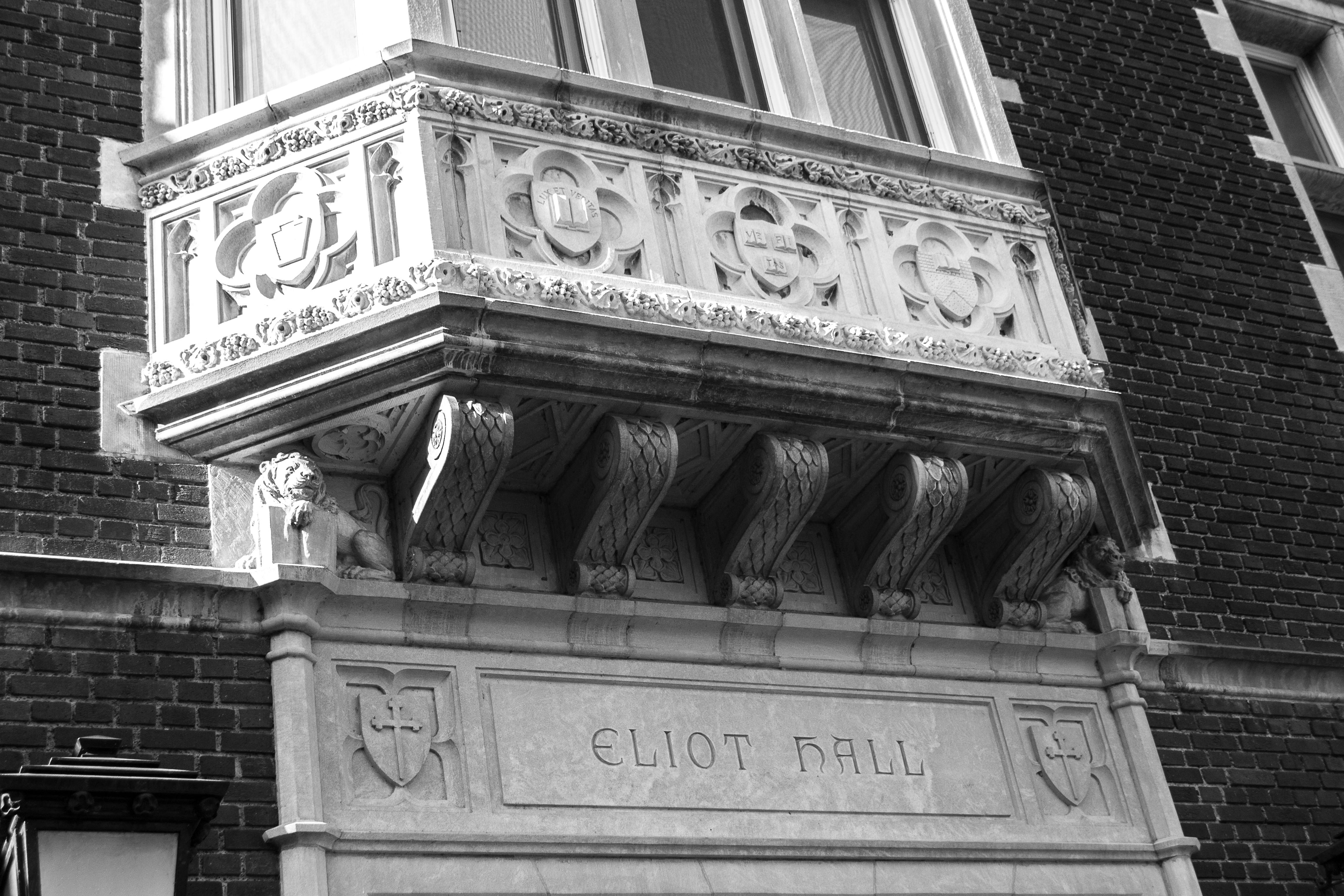 A detail of the Tudor Gothic architecture of Eliot Hall at Reed College